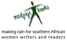 The logo depicts a silhouetted figure of the Sotho rain Queen Modjadji